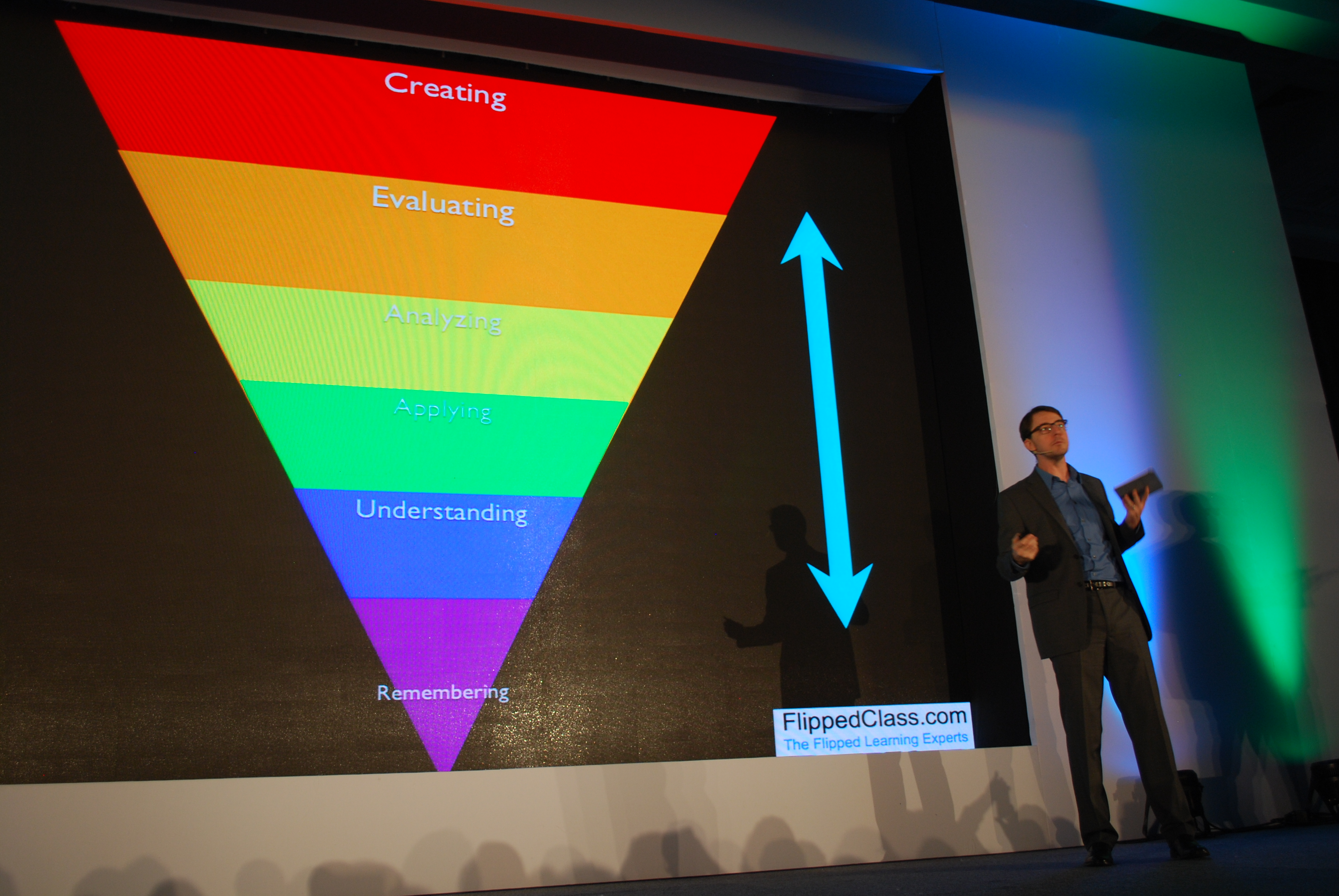 Aaron Sams presenting at the 1er. Congreso Internacional de Innovación Educativa at Tec de Monterrey, Mexico City Campus